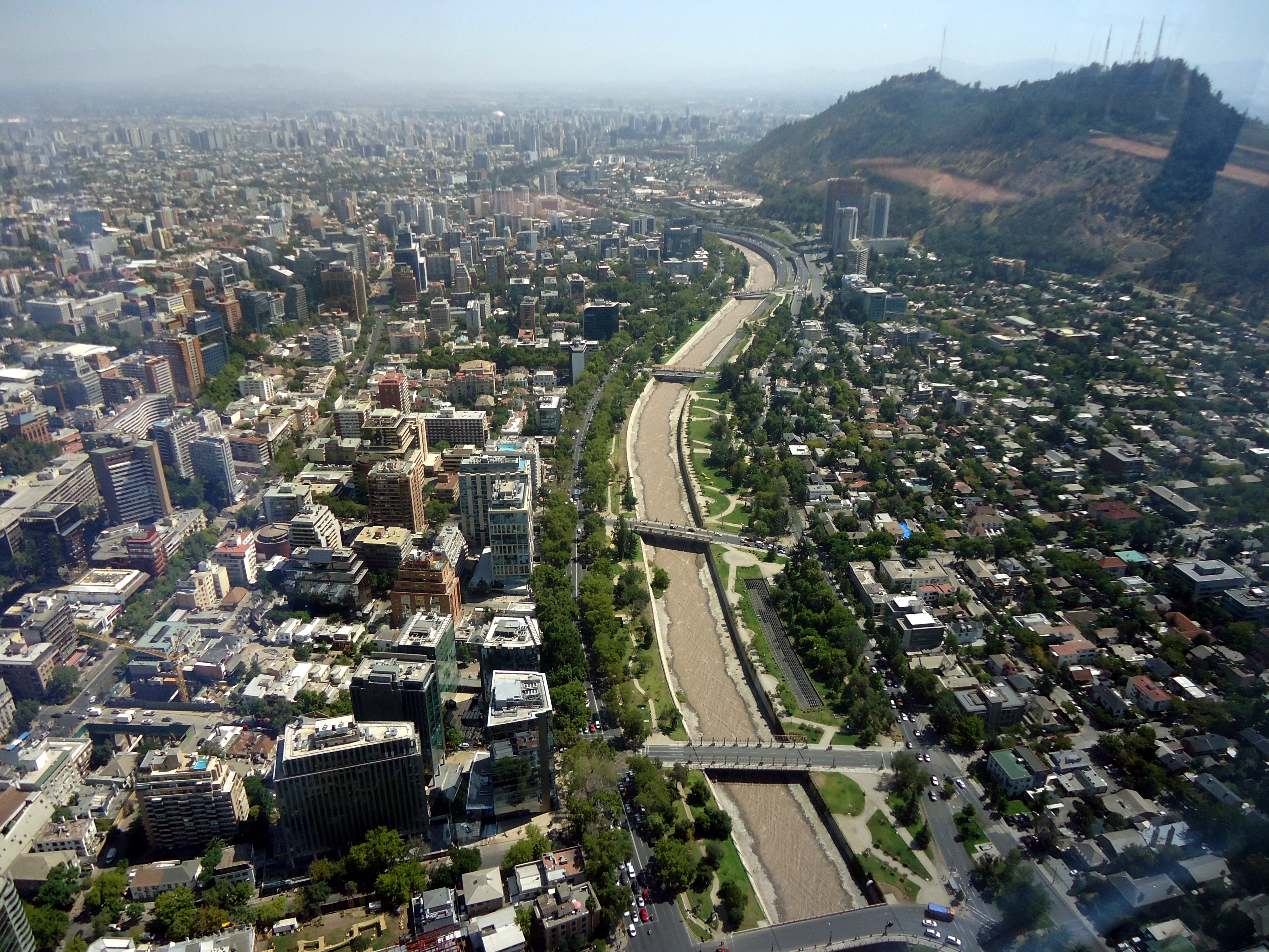 Downtown Santiago de Chile and Mapocho river from the watching deck of the Gran Torre Santiago.